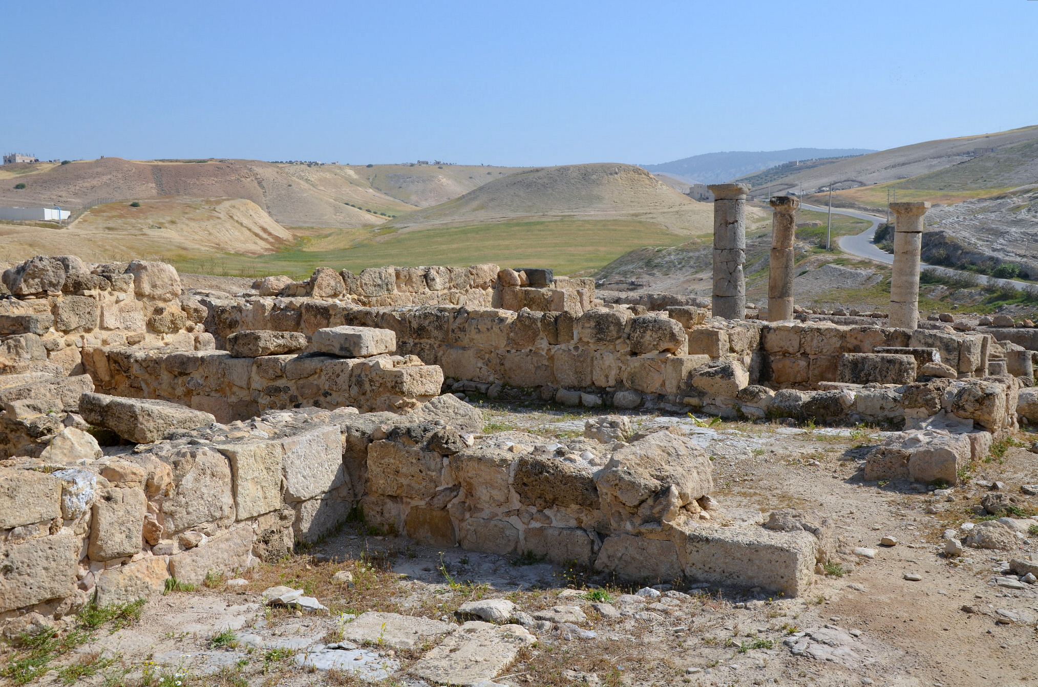 The remains of the Umayyad settlement (c. 660-750 AD), Pella, Jordan